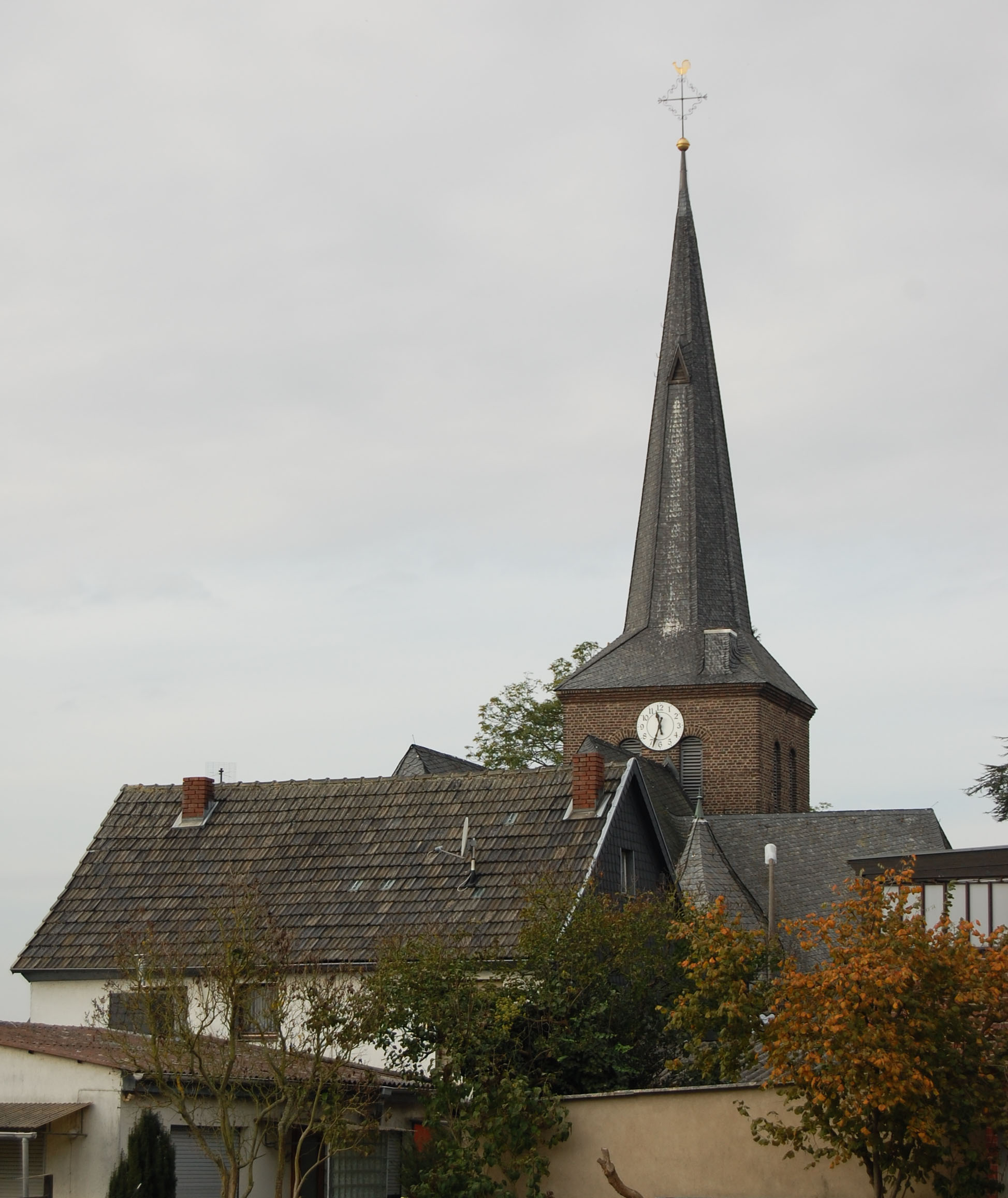 Picture from the village Dirmerzheim, Erftstadt, Germany